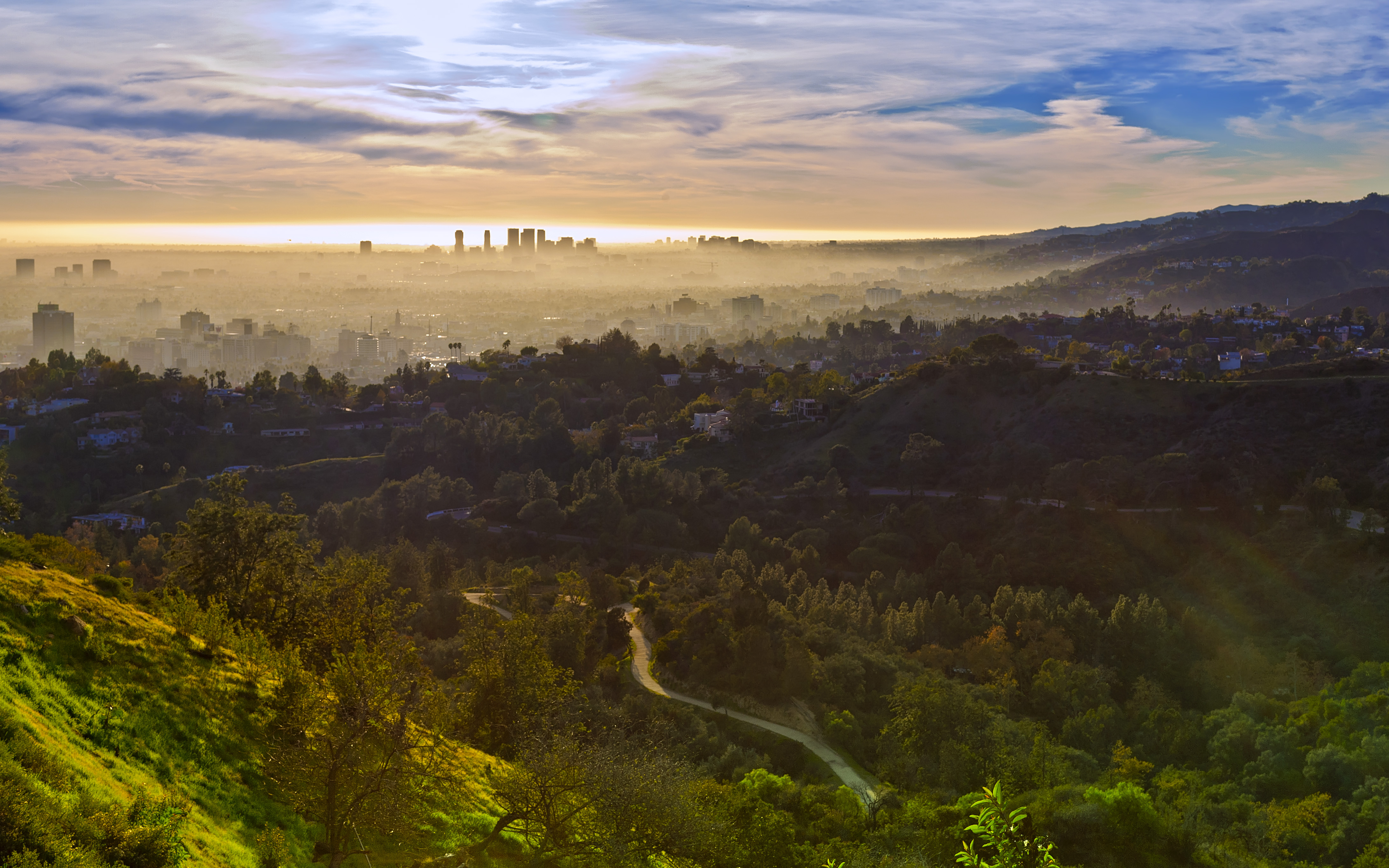 Took this nice landscape [Ed. note: of West Los Angeles, including Hollywood in the foreground and Century City on the horizon just left of center] from the Griffith Park Observatory. There is some glare around the bottom right of this photo, I try my best to control. Love my 50L so much, it shows great detail around the aperture 8.0-11.0 I have Cokin GND 0.9, but I found the color cast is obvious to see before the Photoshop process. Not highly recommended~ No HDR process. Trying the RAW format, you may get more detail than you imagine!